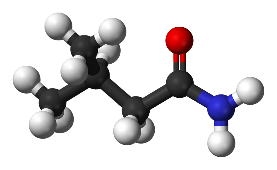 Ball-and-stick model of the isovaleramide molecule (also known as 3-methylbutanamide), an amide found in valerian root.